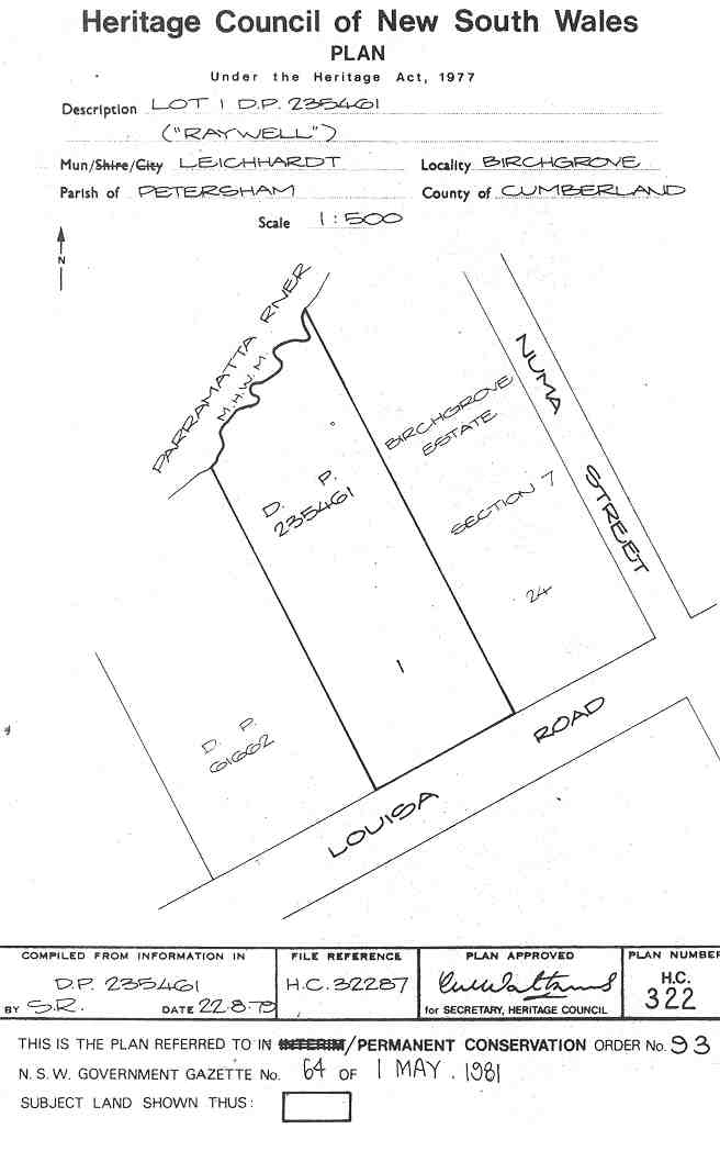 Raywell, Birchgrove: PCO Plan Number 093